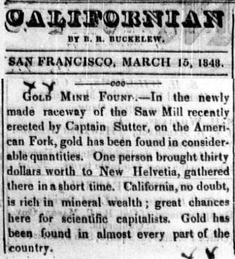 Page 2, column 4, article describing Gold discovery at Sutter's Mill dated March 15, 1848